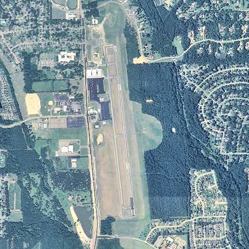 USGS digital orthophoto of Bruce Campbell Field in Mississippi.